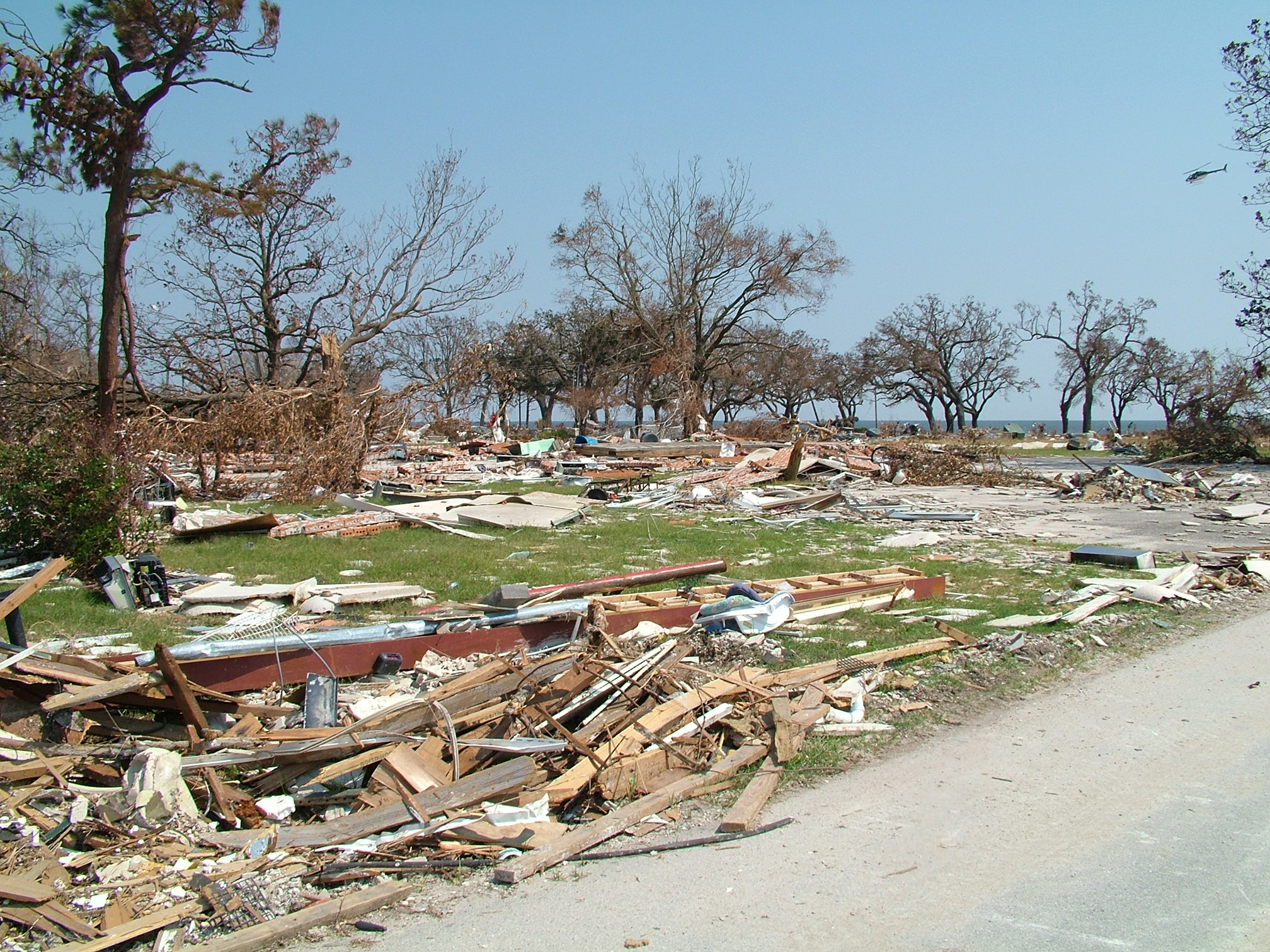 Hurricane Katrina aftermath in Long Beach, Mississippi